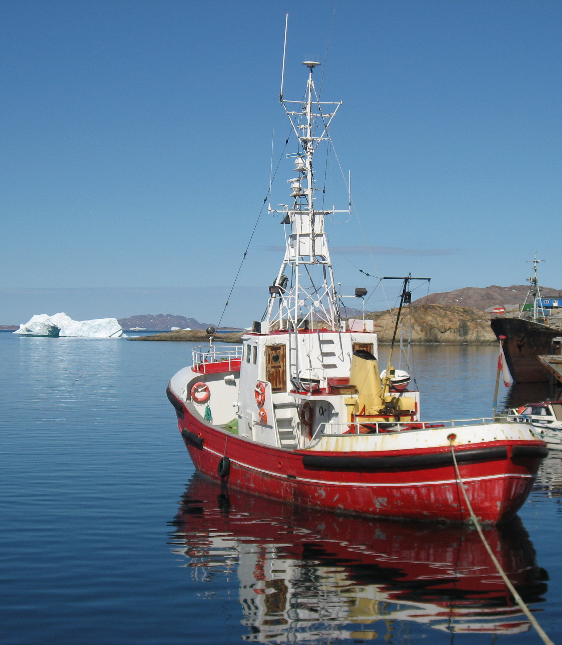 Duda Lasø in Upernavik harbour, Greenland. The ship (77 brt) was built in 1962 on C. Anders Skibs- og Bådebyggeri, Fåborg, Denmark. After serving as a police ship for many years it was bought in 2000 by Lasø Upernavik Aps , a construction company in Upernavik. The ship is sometimes chartered by, e.g., the health care authorities for health care visits to the settlements in the district. The ship has two cabins (three beds each), a saloon, a small kitchen, a toilet, misc. storage rooms and a seperate section for the crew. The crew normally consist of the captain and an assistant.